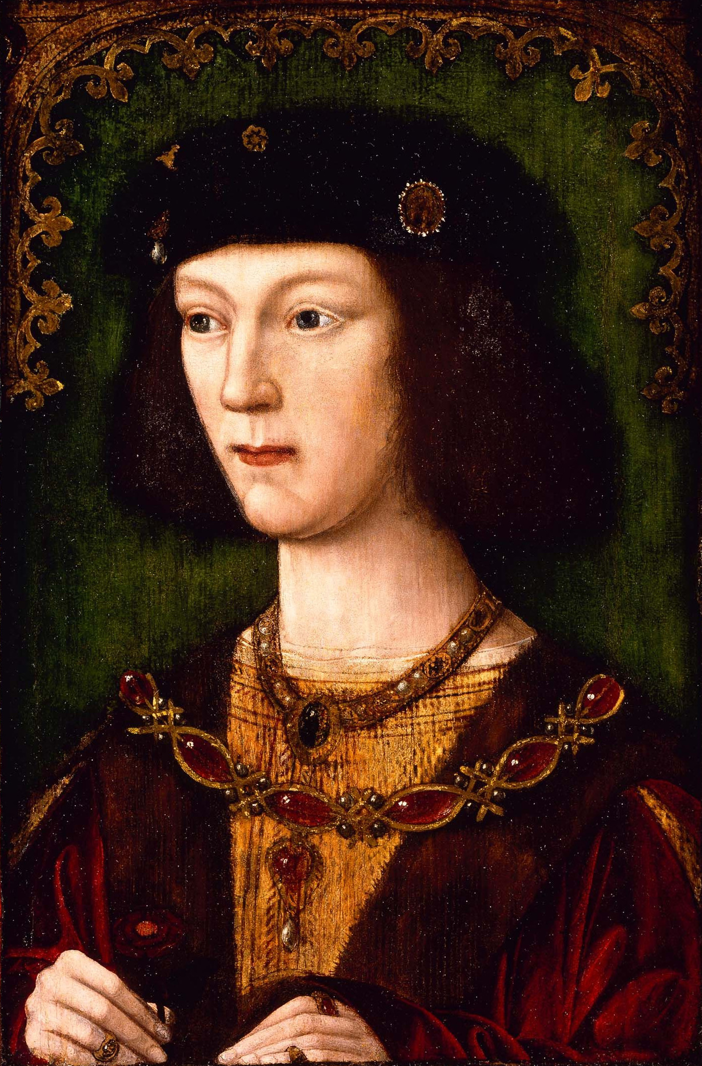 Portrait of Henry VIII of England (1491-1547), reigned 1509-1547.